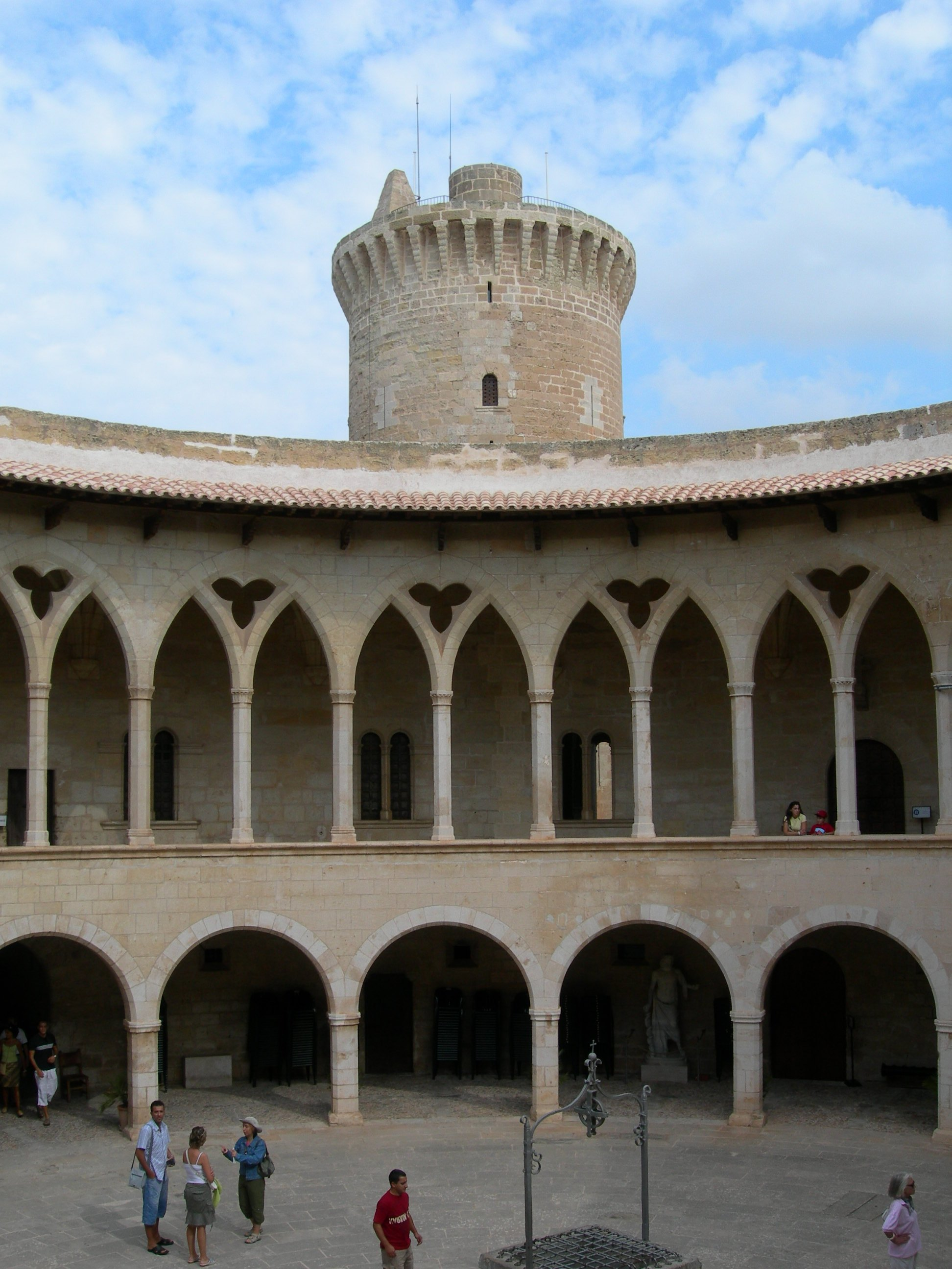 Interior and Honemage Tower at Bellver Castle